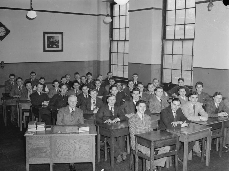 We see students and Grade 12 teacher of The High School of Montreal. The teacher is sitting at his desk and the young men at their desks.